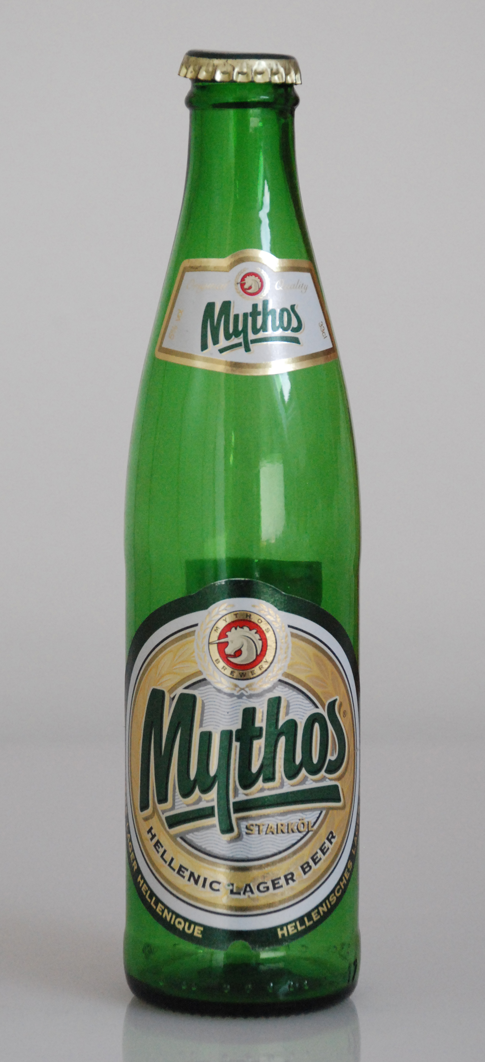 Empty 33cl bottle of Mythos beer.